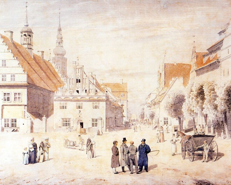 Greifswald marketplace in 1818 with the family Friedrich